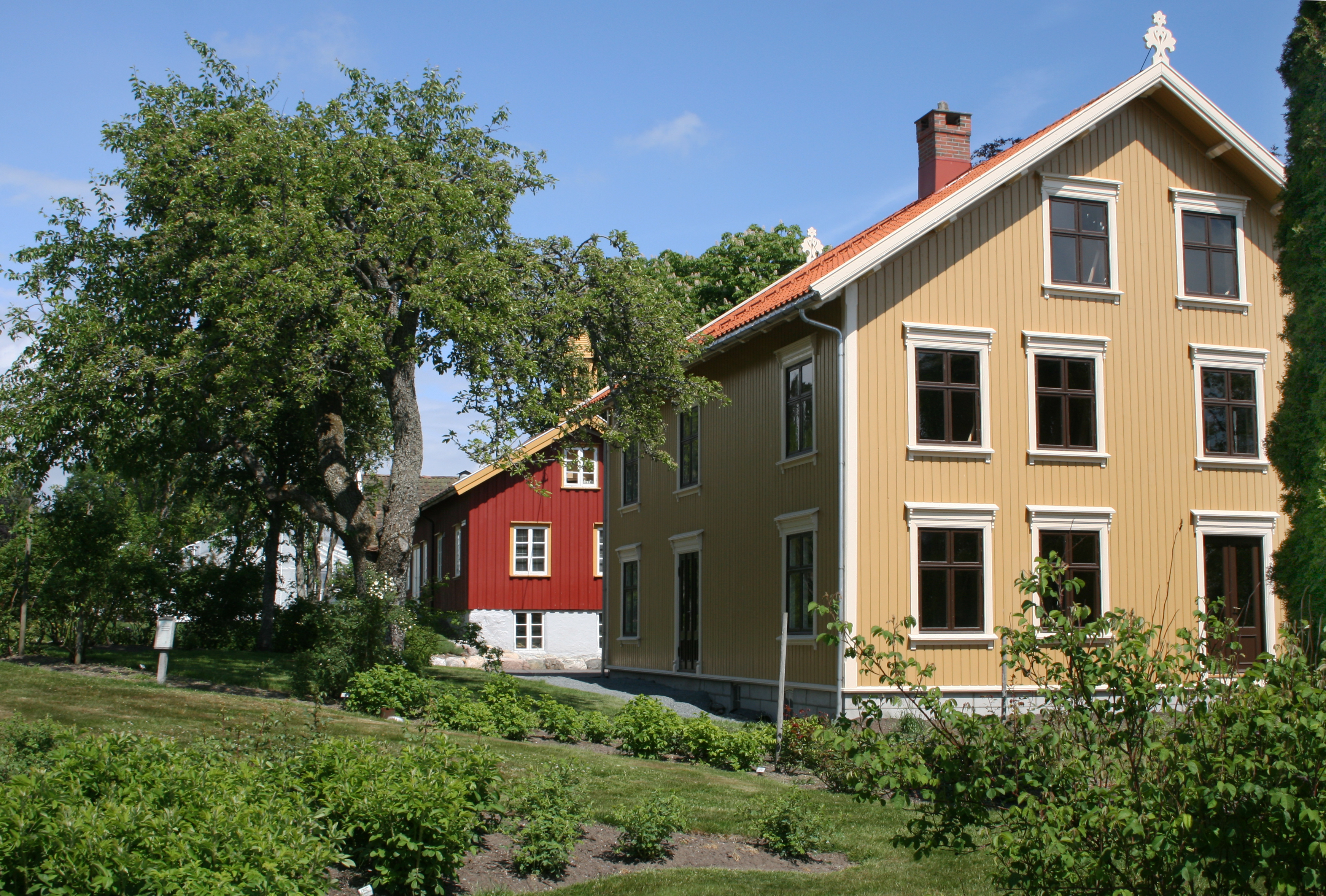 Dømmesmoen Grimstad